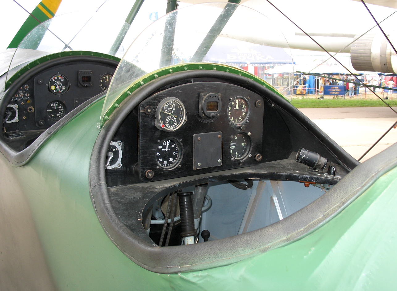 Cabins of pilots of Po-2 (the international aerospace salon MAKS-2007)